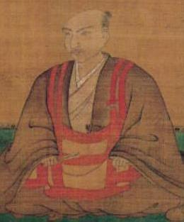 Asakura Yoshikage, 朝倉義景 (1533-1573) was a feudal lord of Echizen.